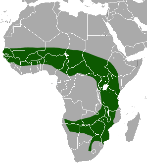 Bicolored Musk Shrew (Crocidura fuscomurina) range